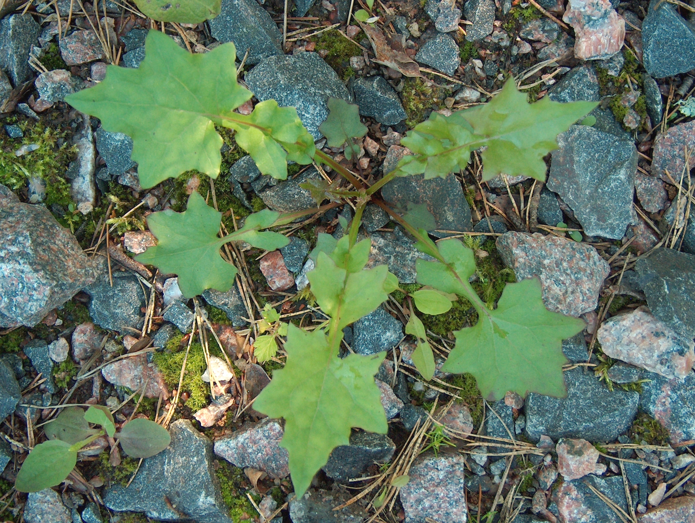 Mycelis muralis, Wall Lettuce - Seedling - Kerava, Finland